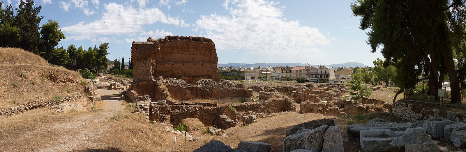 The Thermal Spring of Ancient Argos - more information visit Ploync